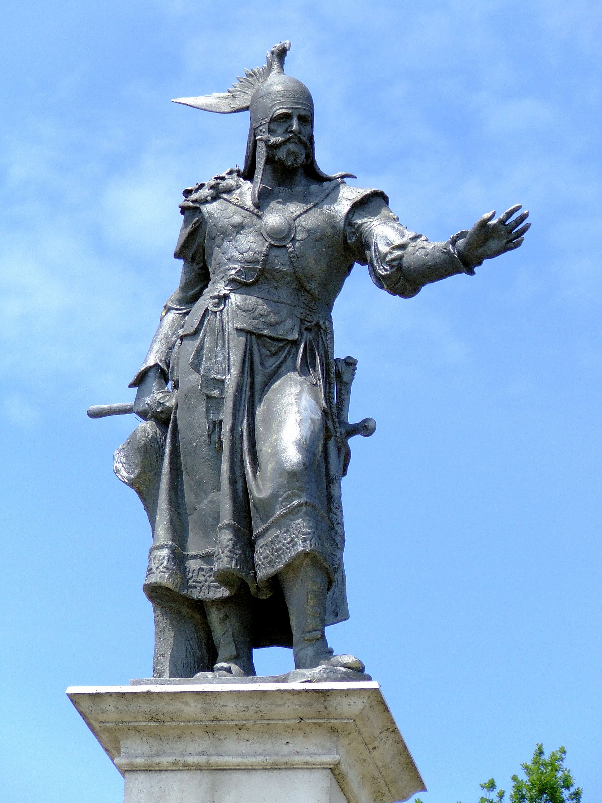 Statue of Árpád at the town of Ráckeve